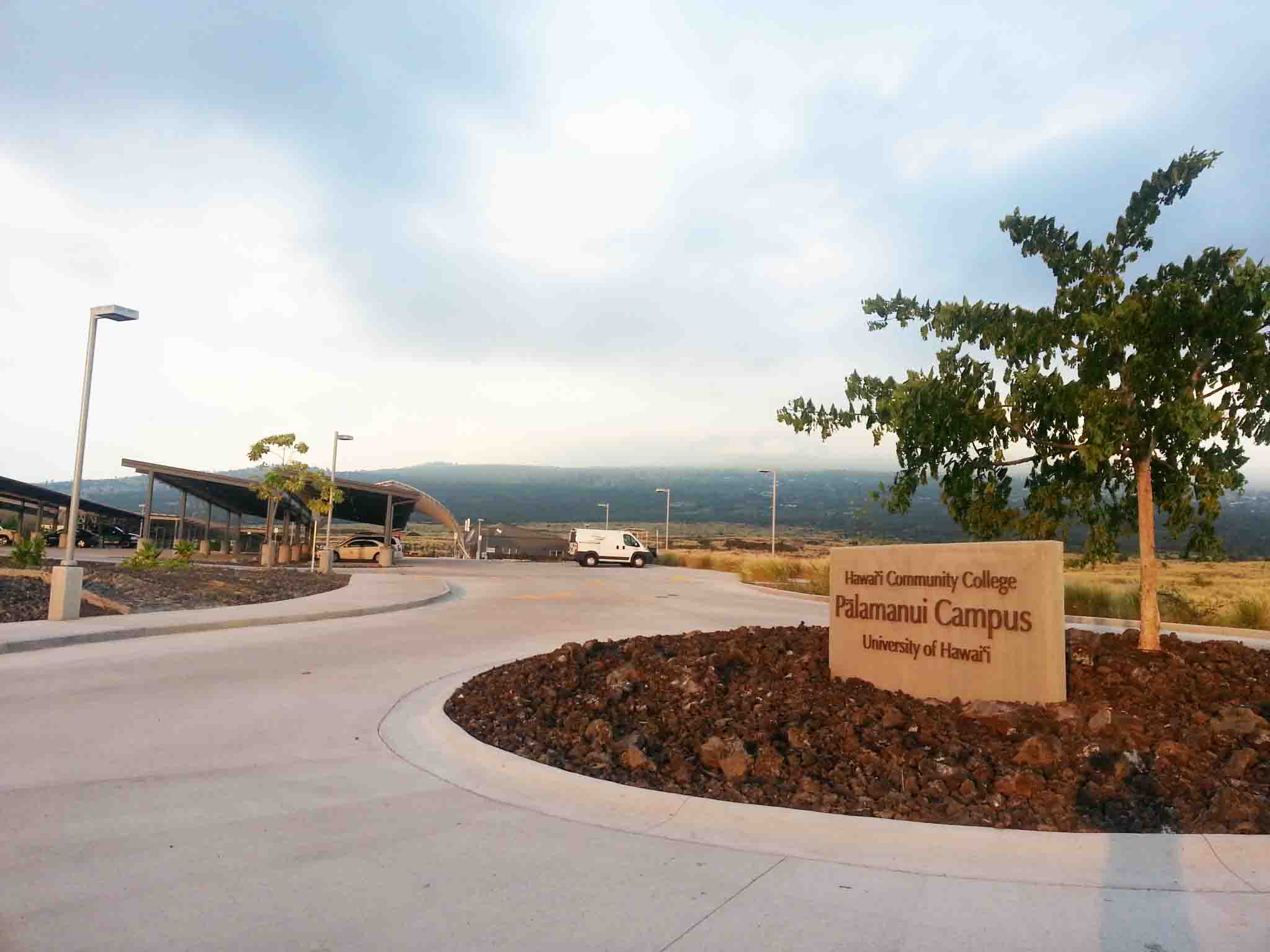 Hawaii Community College at Palamanui, near Kailua Kona, the Big Island of Hawaii, USA